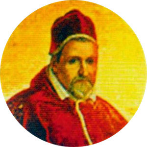 Portait of Pope Paul V in the Basilica of Saint Paul Outside the Walls, Rome